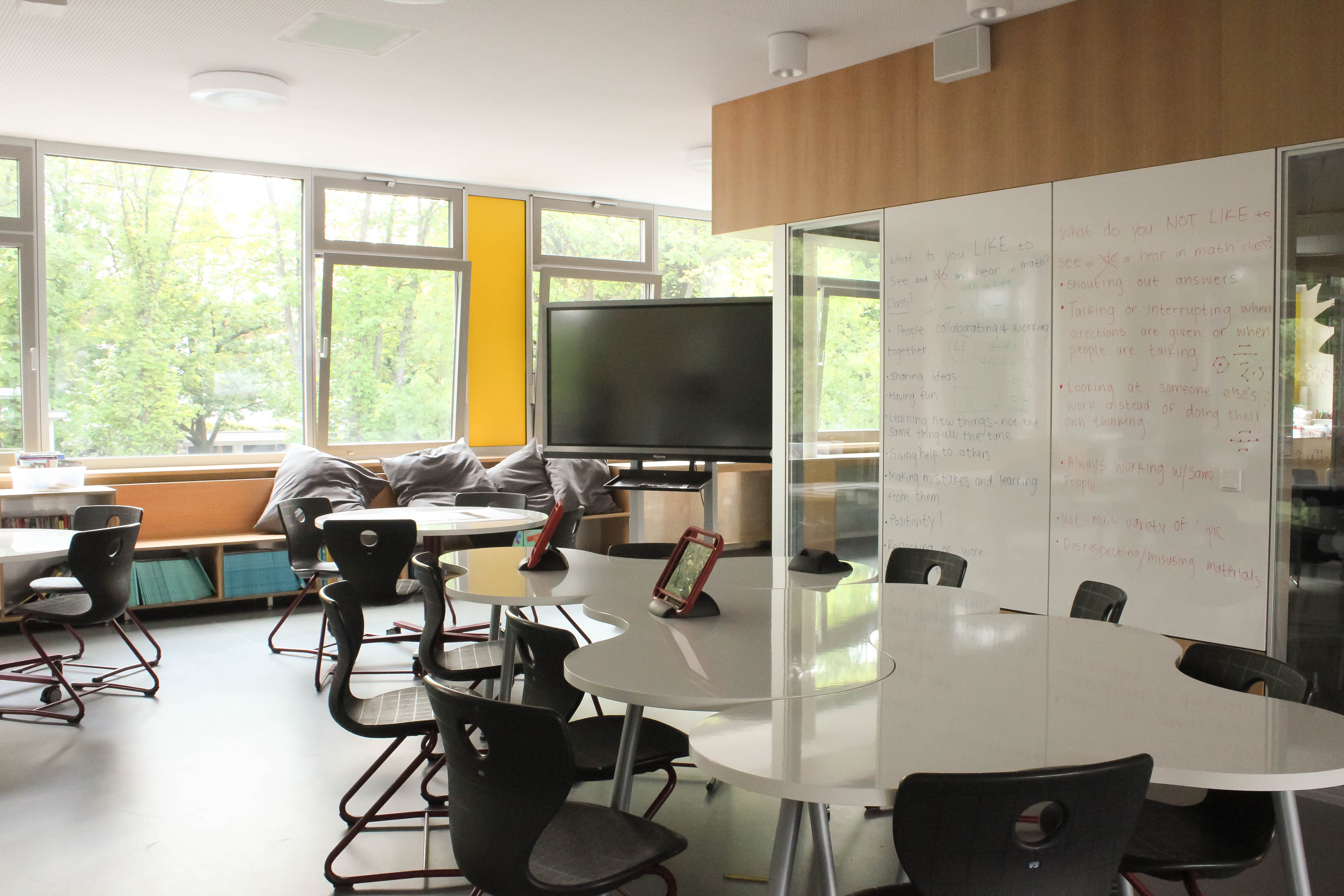 ISD Elementary Classroom